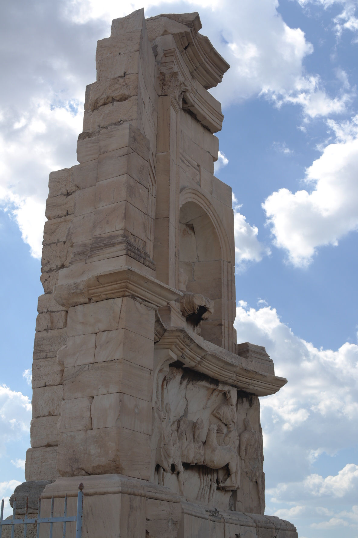 The Philopappos Monument (Greek: Μνημείο Φιλοπάππου) is an ancient Greek mausoleum and monument dedicated to Gaius Julius Antiochus Epiphanes Philopappos or Philopappus, (Greek: Γάιος Ιούλιος Αντίοχος Επιφανής Φιλόπαππος, 65–116 AD), a prince from the Kingdom of Commagene. It is located on Mouseion Hill in Athens, Greece, southwest of the Acropolis.